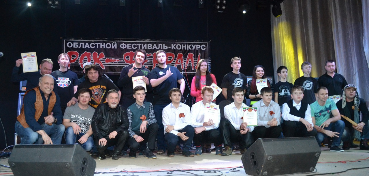 Музыканты XXII Областного фестиваля «Рок-Февраль — 2015»